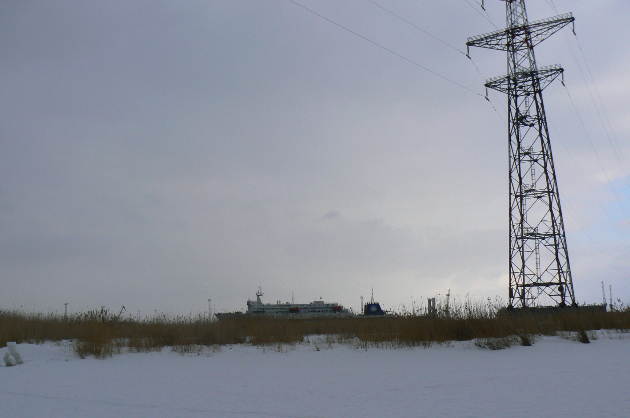 Island Kiaulės Nugara in winter